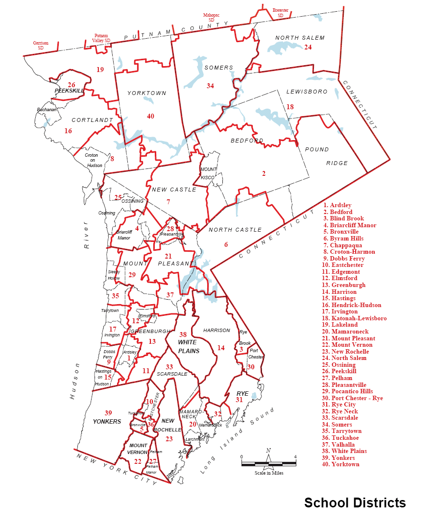 This map of the school districts in Westchester County is an enhancement (created by me) of the original provided on the county website.